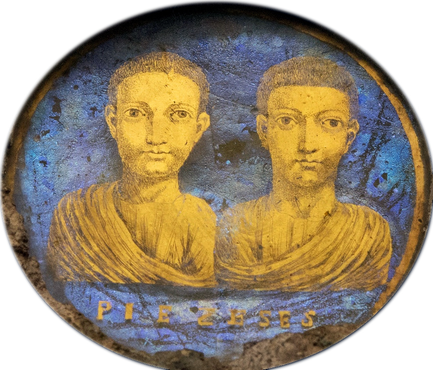 Gold-glass portrait of two young men (Bologna, Archaeological Museum)